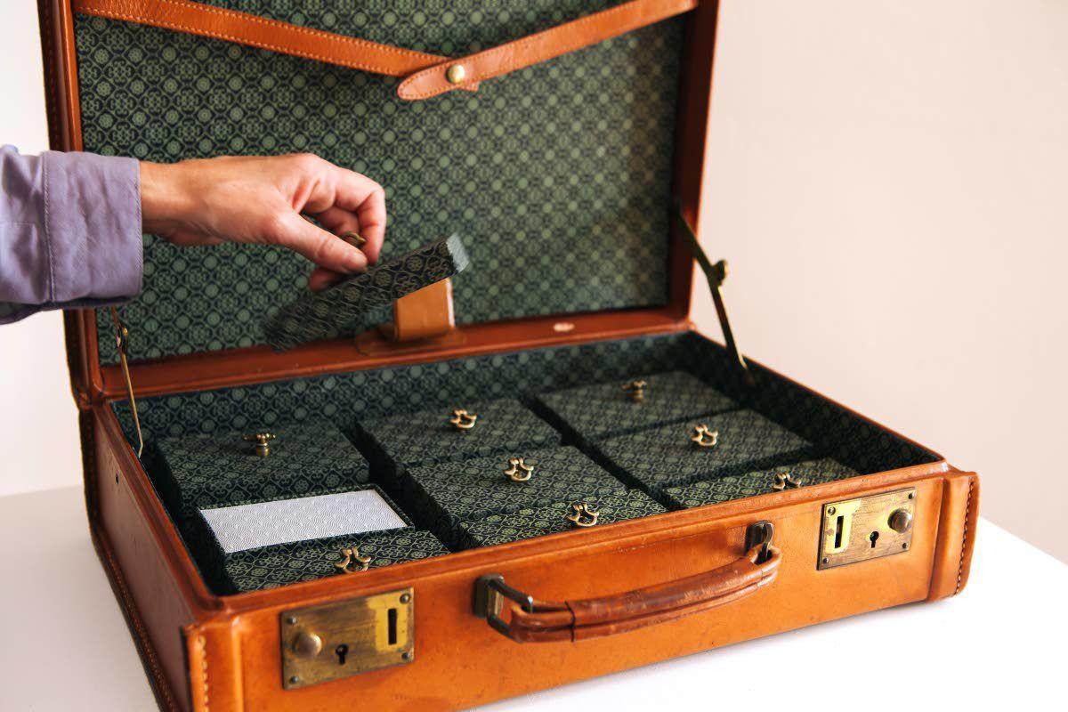 Interactive sound art sculpture made by Margaret Noble.